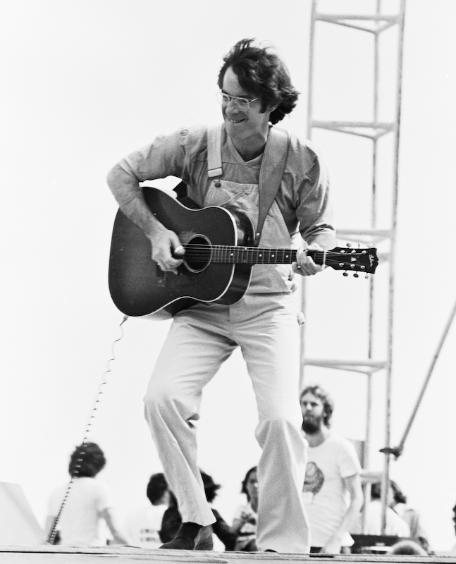 John Sebastian, Woodstock Reunion, 9/7/79. Parr Meadows, Ridge, NY.